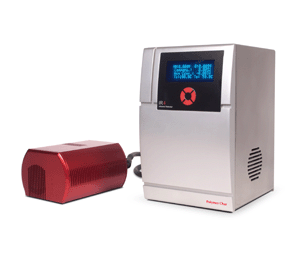 Infrared Detector IR4 by Polymer Char